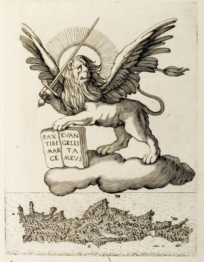 The winged lion of St. Mark, symbol of the Republic of Venice above the island of Crete. Le lion ailé de St Marc, symbole de la république de Venise, surplombant la Crète.